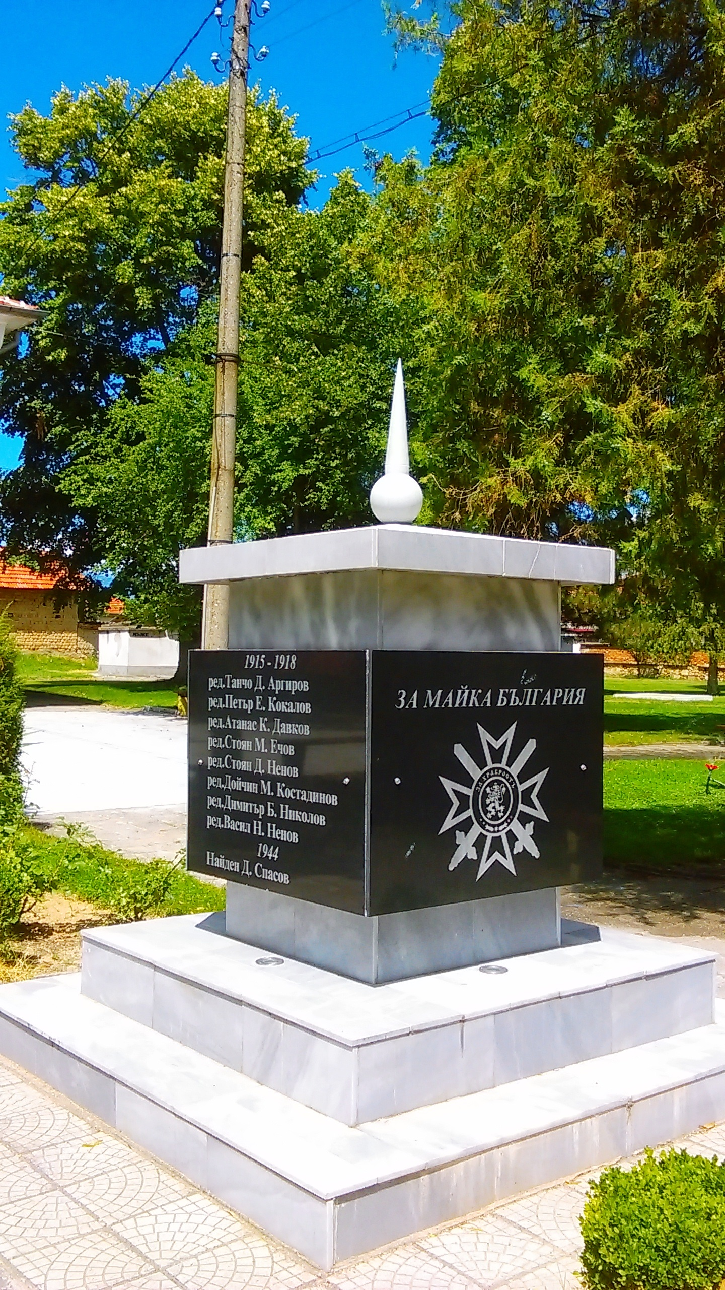 Military monument in Chernichevo, Plovdiv province, Bulgaria